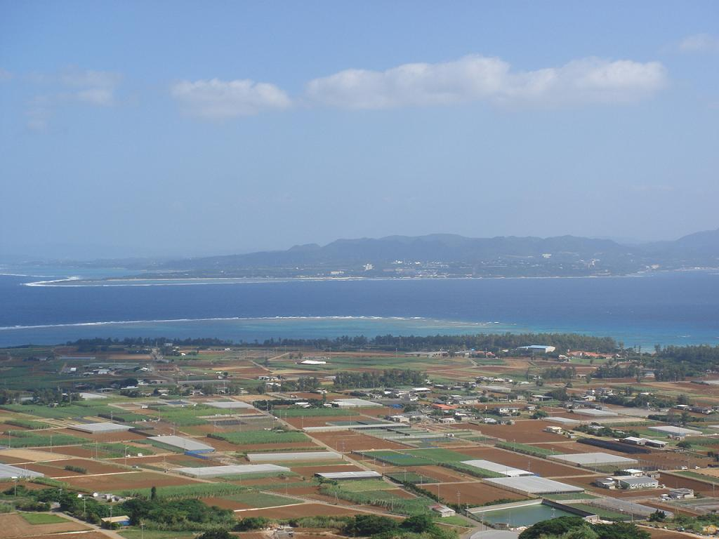 View of the Motobu Peninsula from Mount Gusuku in Ie Island